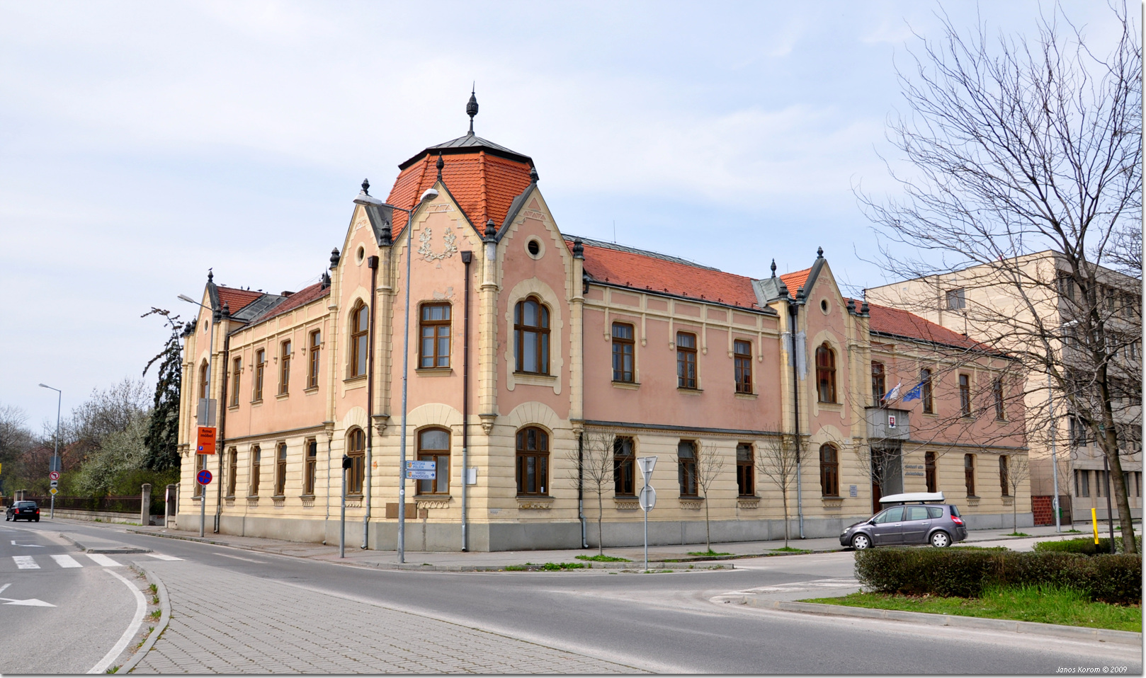 Dunajská Streda - courthouse